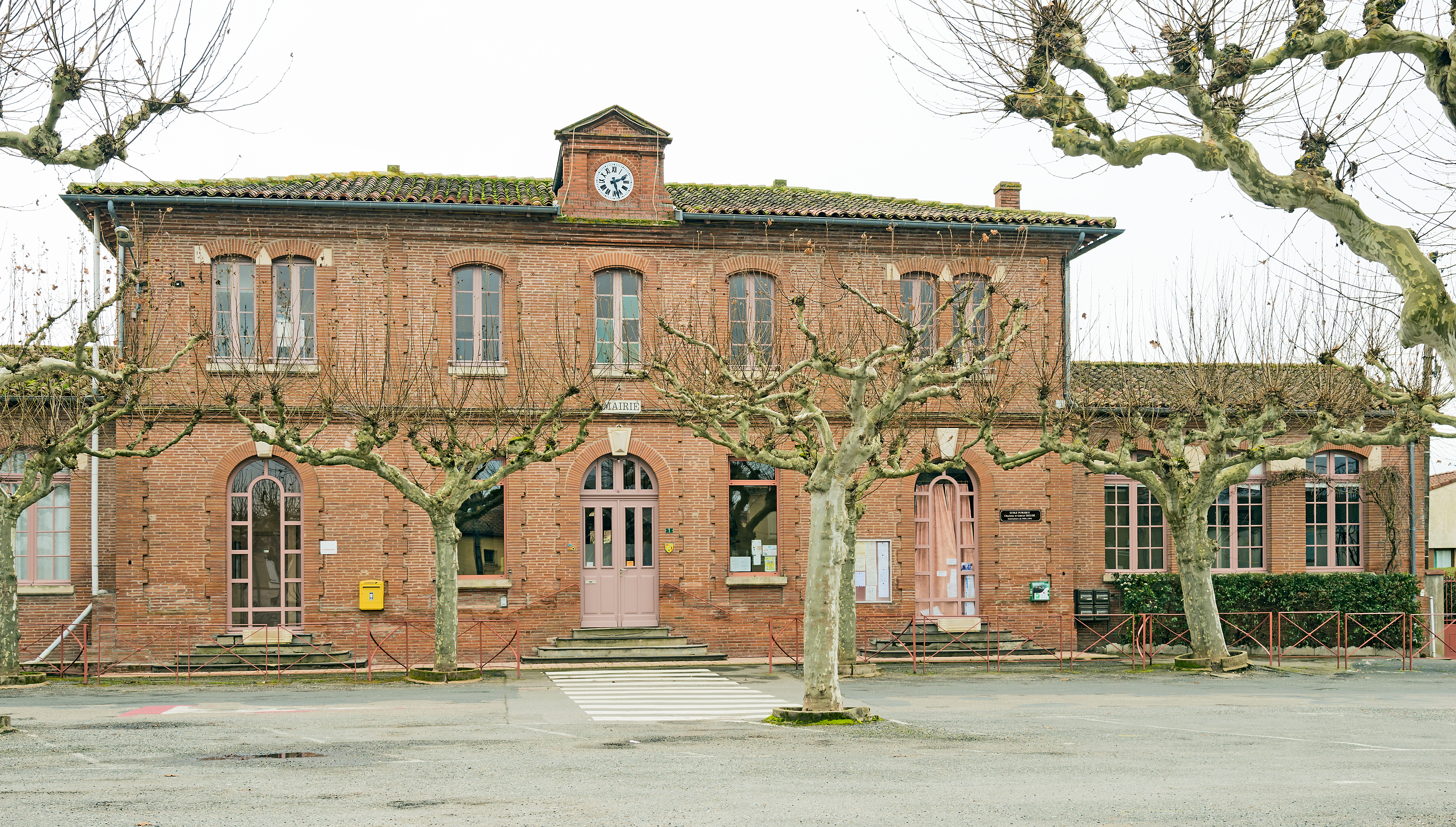 Villematier, La mairie.